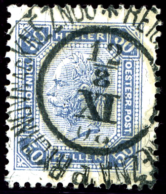 Austrian KK stamp 50 heller issue 1904, bilingual cancelled in 1908 (?) at Reichenau a.d. Knezna (Bohemia), with double circle Klein type GDje 134